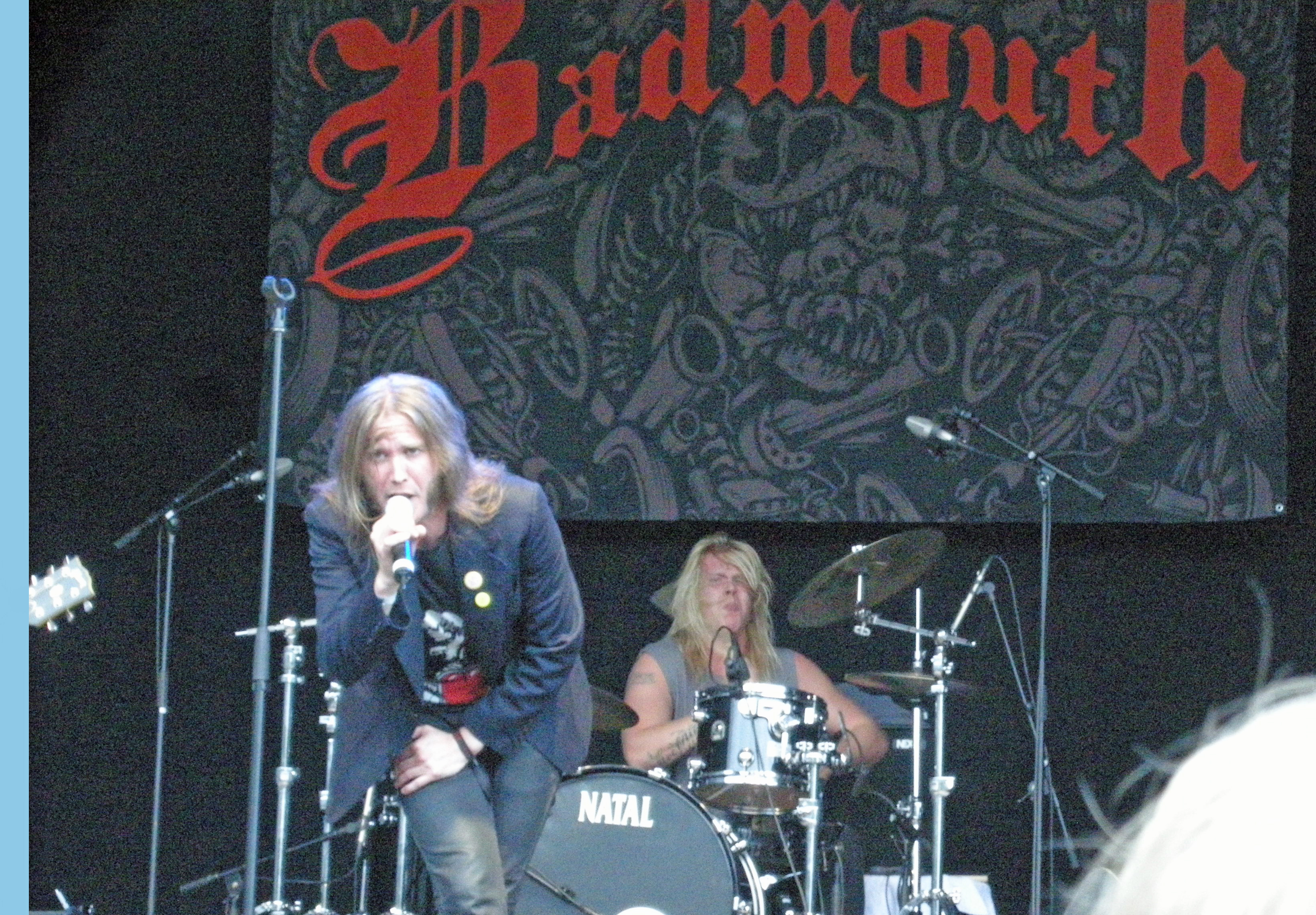 Swedish heavy metal band Badmouth at Skogsröjet, Rejmyre, Sweden 2012